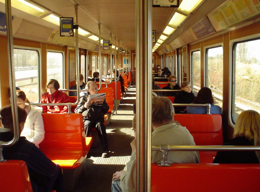 Helsinki Metro, M100-series train interior